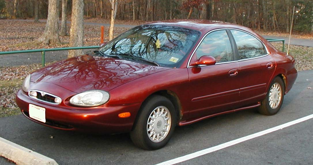 1996-1999 Mercury Sable sedan photographed in USA.